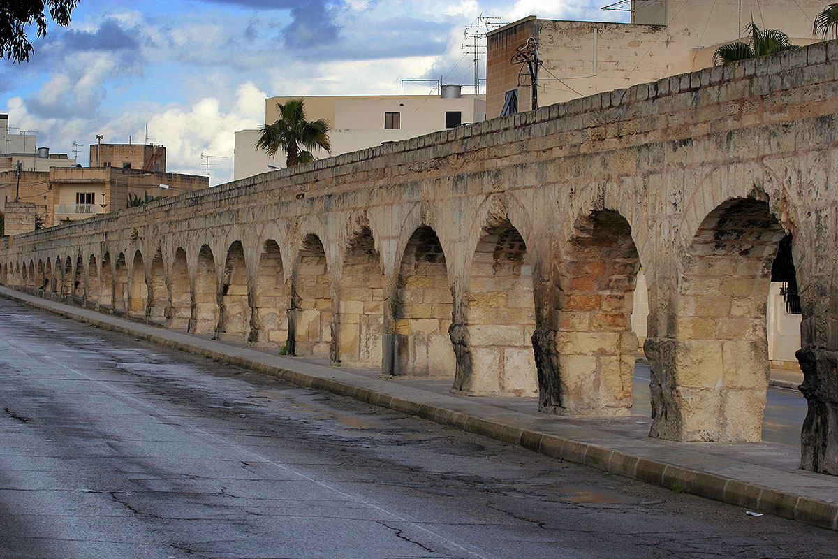 The 17-century Wignacourt Aqueduct at Birkirkara, Malta